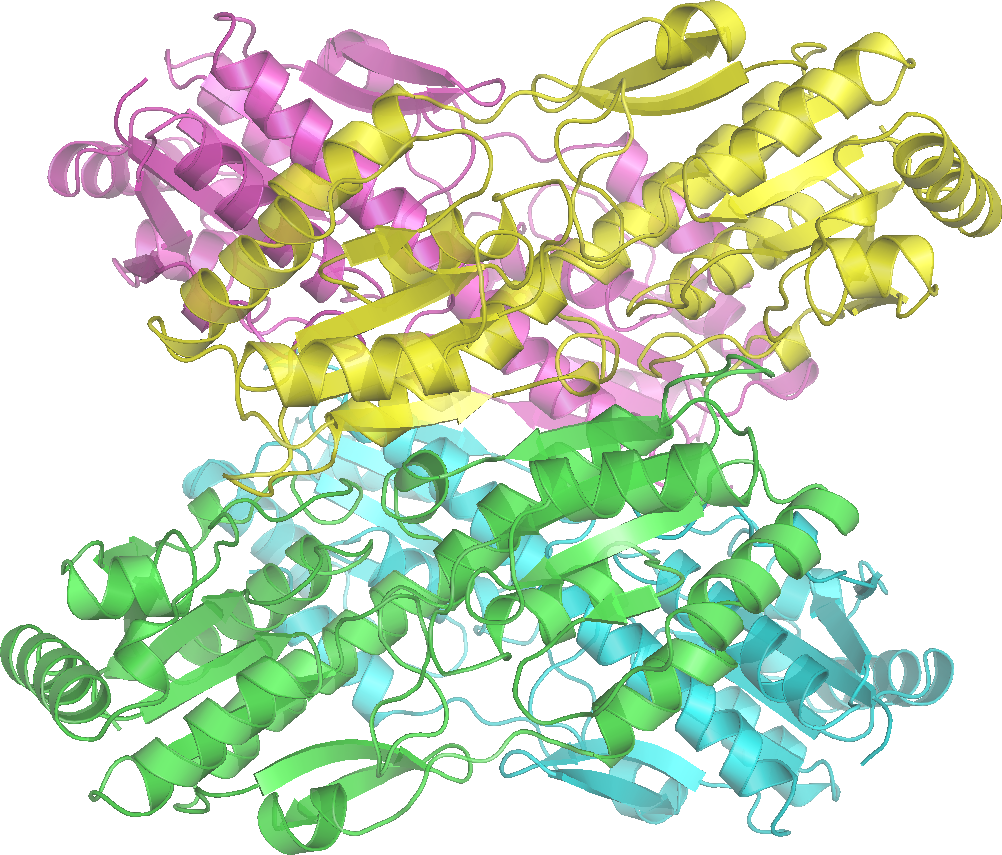 By Richard Wheeler (Zephyris) 2006. For the metabolic pathways wikiproject. Category:Protein images